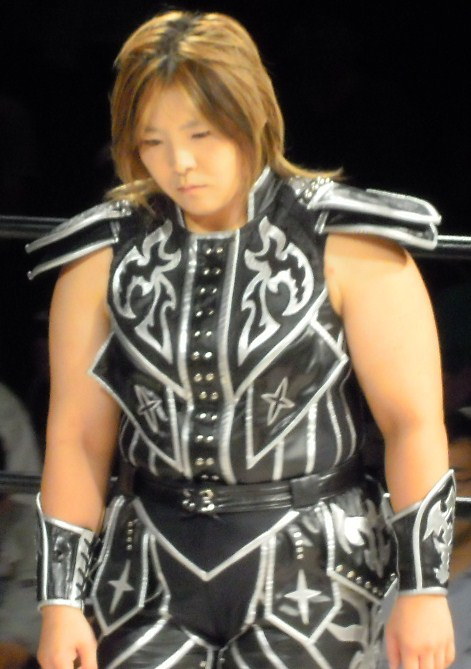 Japanese professional wrestler,Tsubasa Kuragaki.Aug 29 2010, JWP Tokyo Kinema Club.